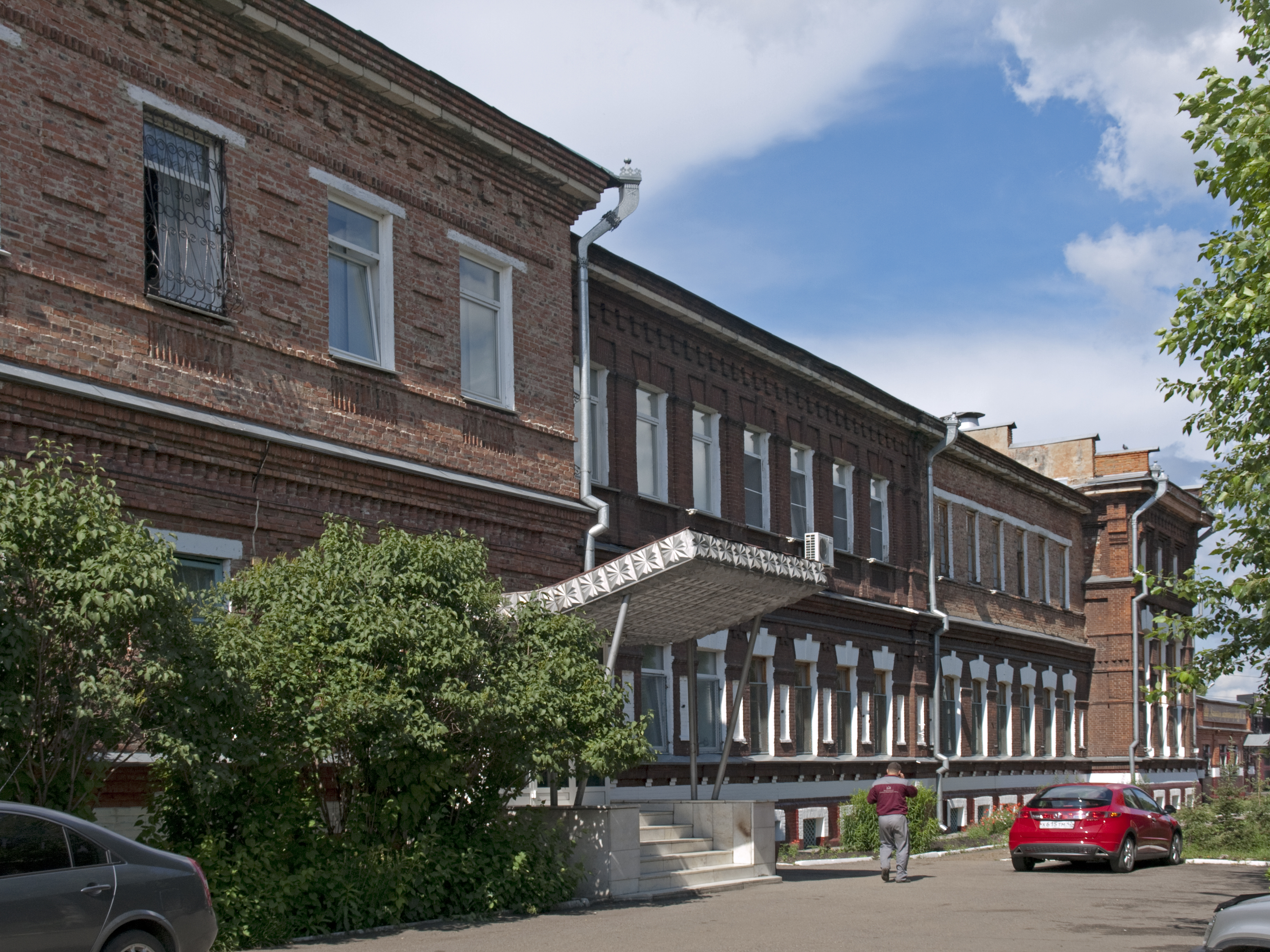 Spirits Factory, Palchikova Street, Mariinsk